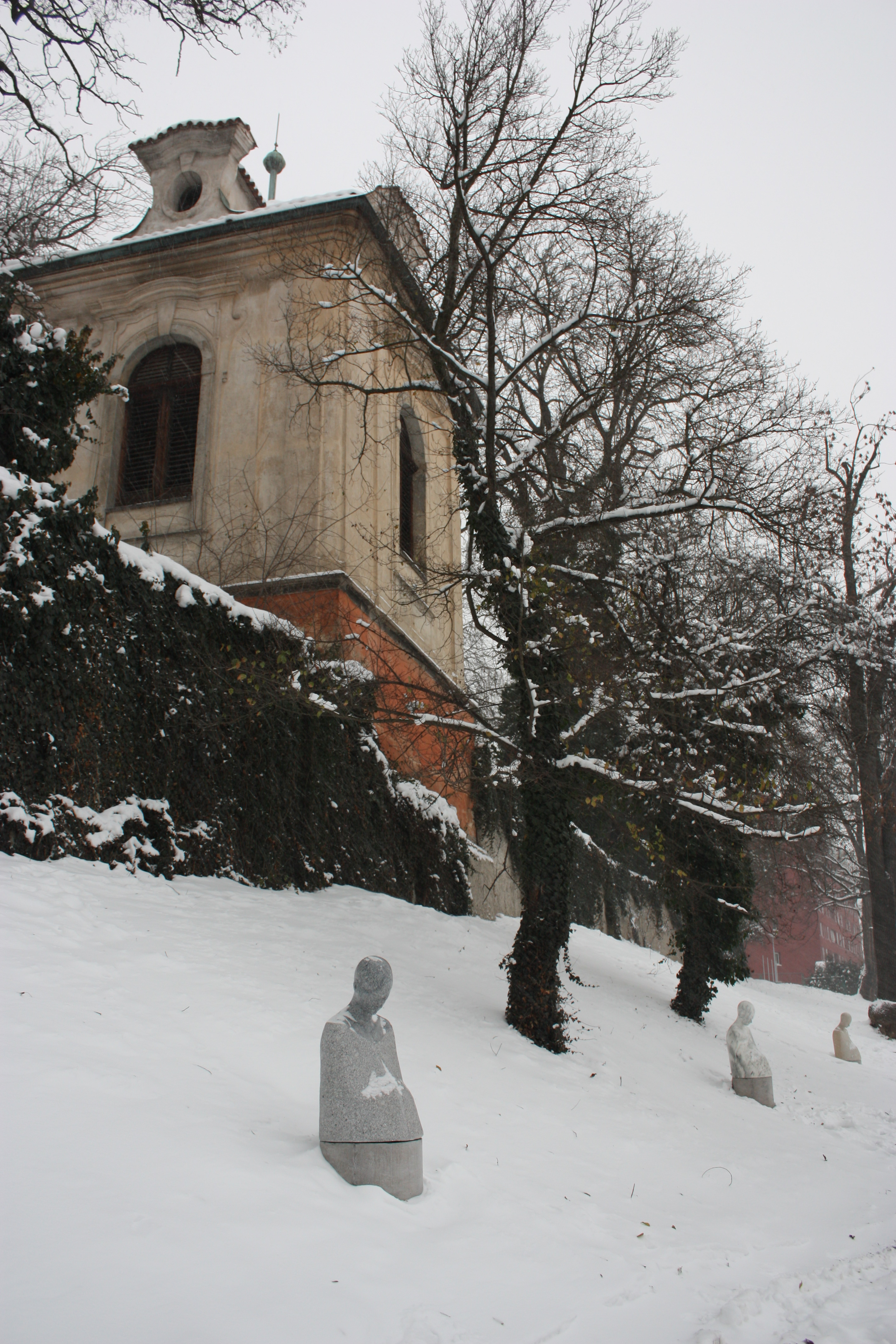 Sculptures at old Prosek (part of Prague) near the church of St. Wenceslaus.